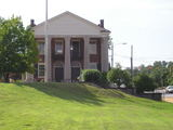 An Old State Bank in Decatur, AL.